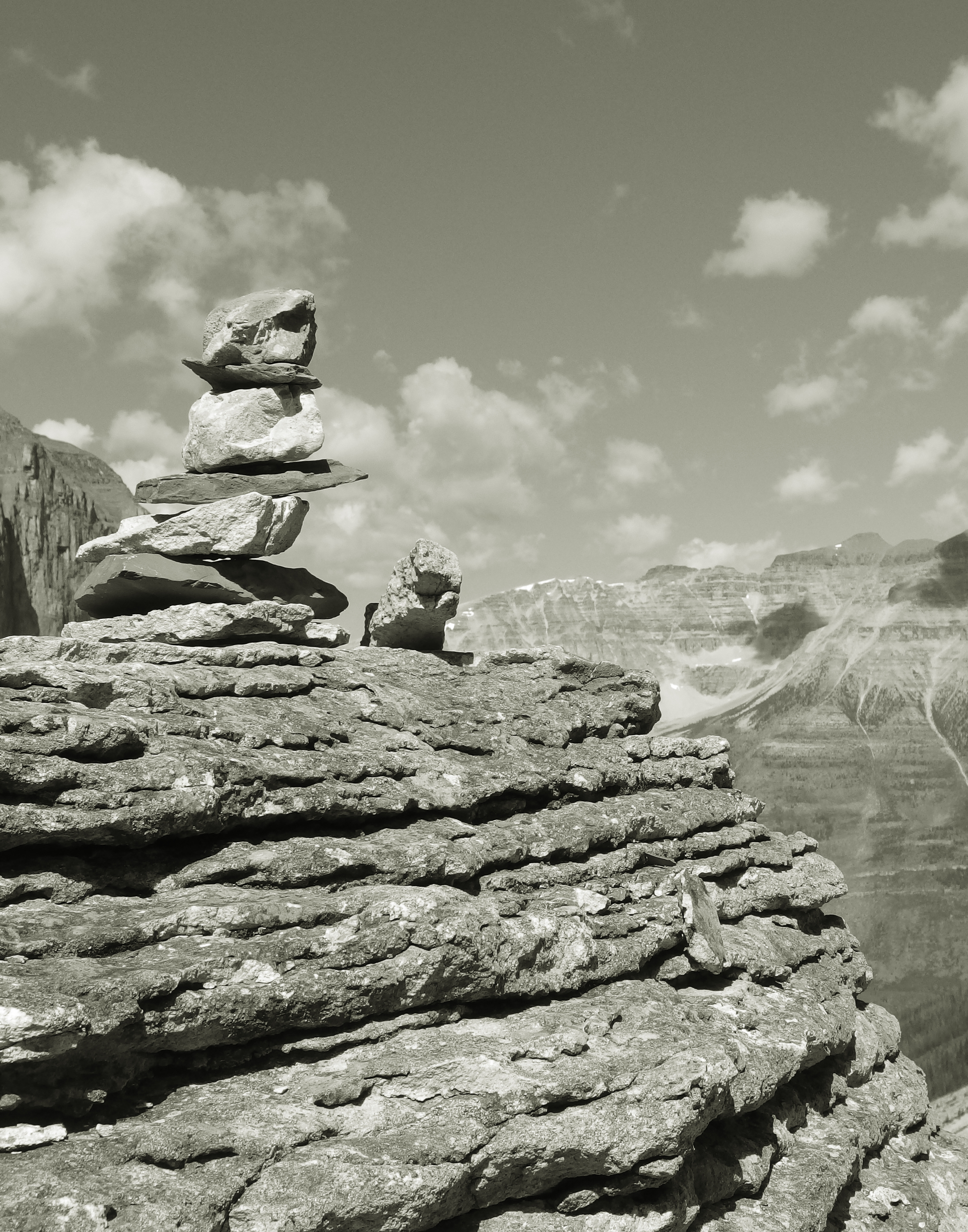 Trail markers, taken from the plateau just below Stanley Glacier, facing Mt Whymper. This photo was taken in a protected area in Canada, Wikidata item Q903323